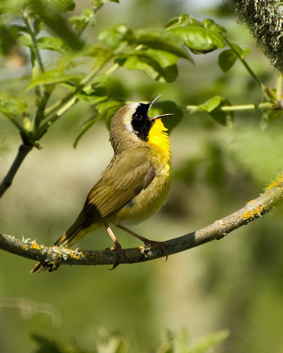 Common yellowthroat (Geothlypis trichas) - photo by George Gentry, USFWS